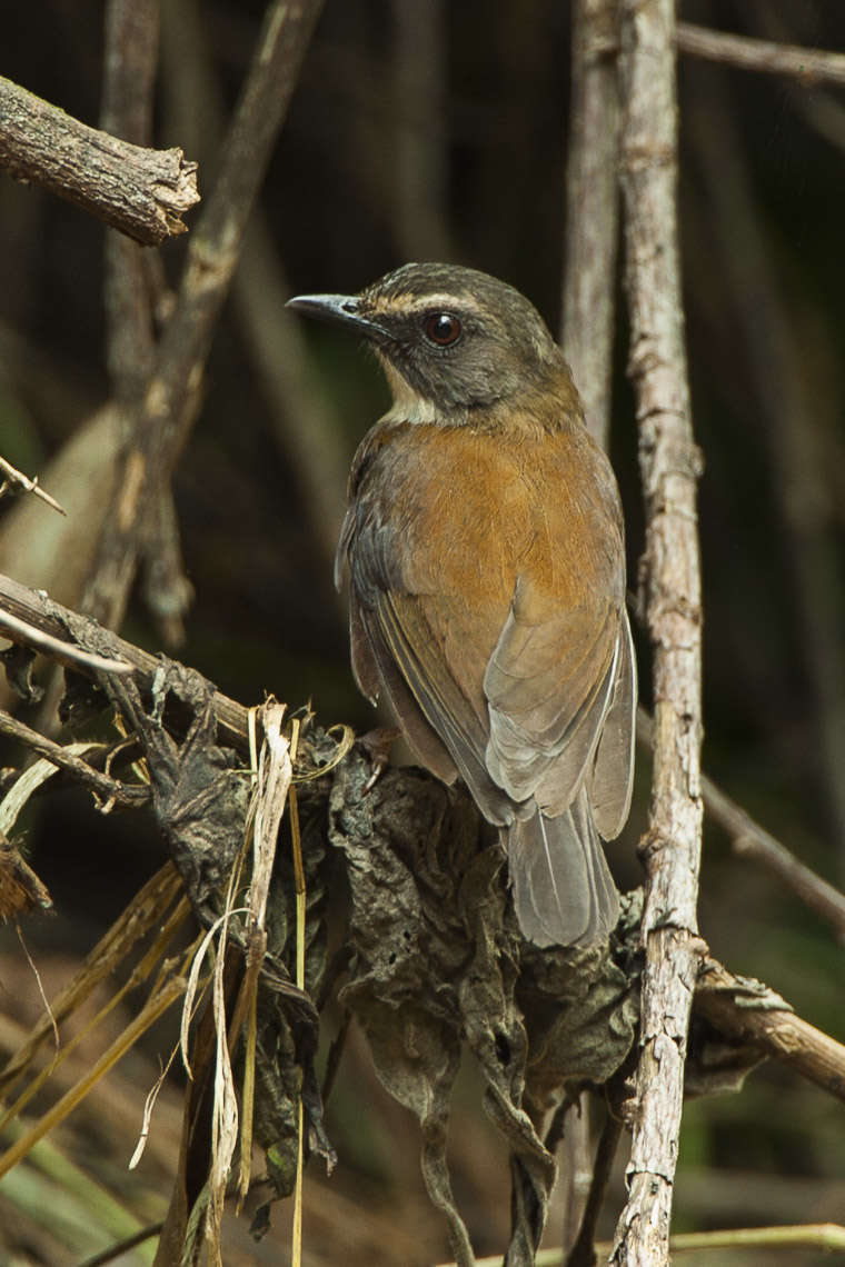 Brown-chested Alethe - Kakamega Kenya 06_2654